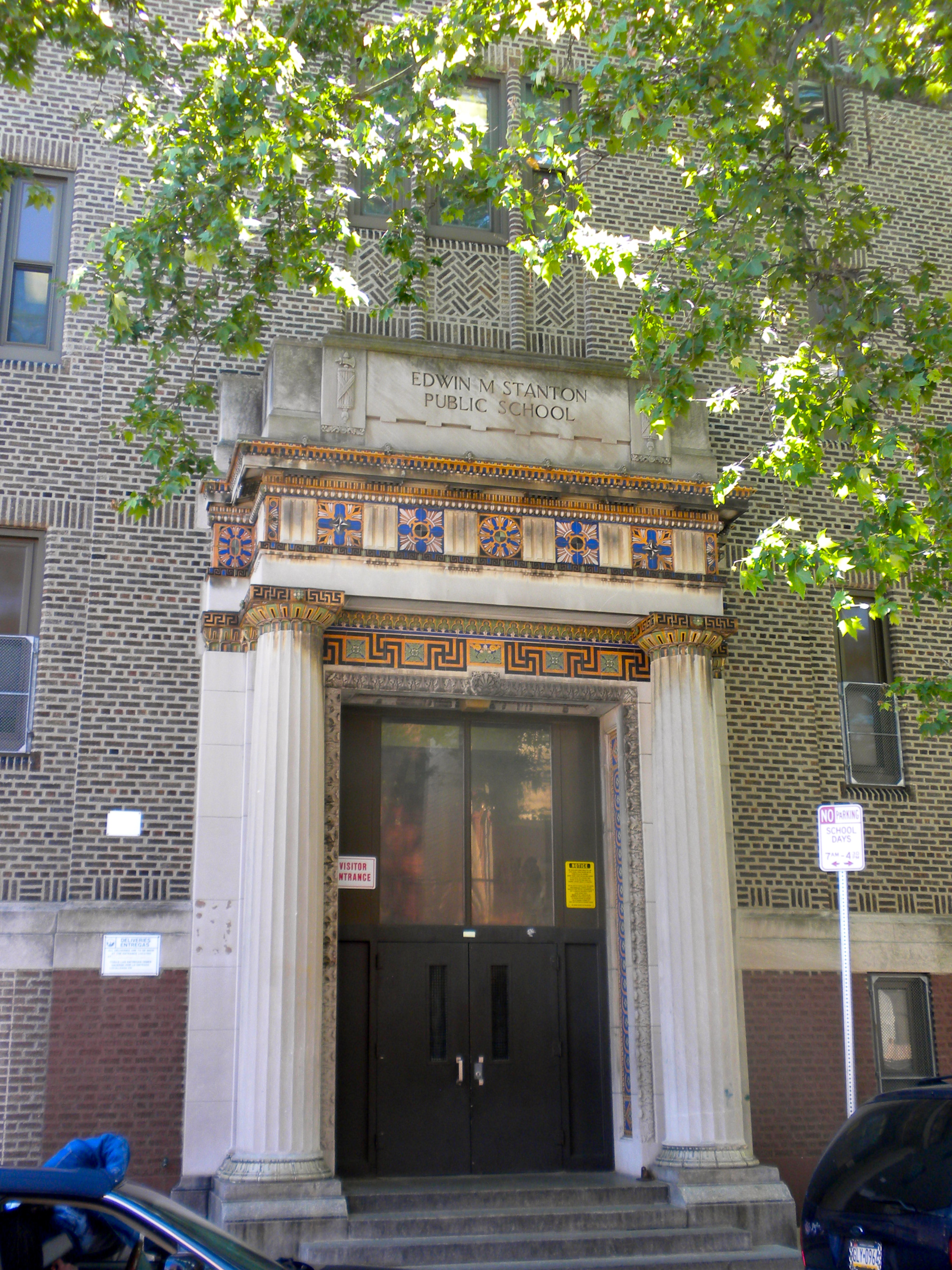 Edwin M. Stanton School on NRHP since November 18, 1988. At 1616–1644 Christian Street in Southwest Center City of Philadelphia.